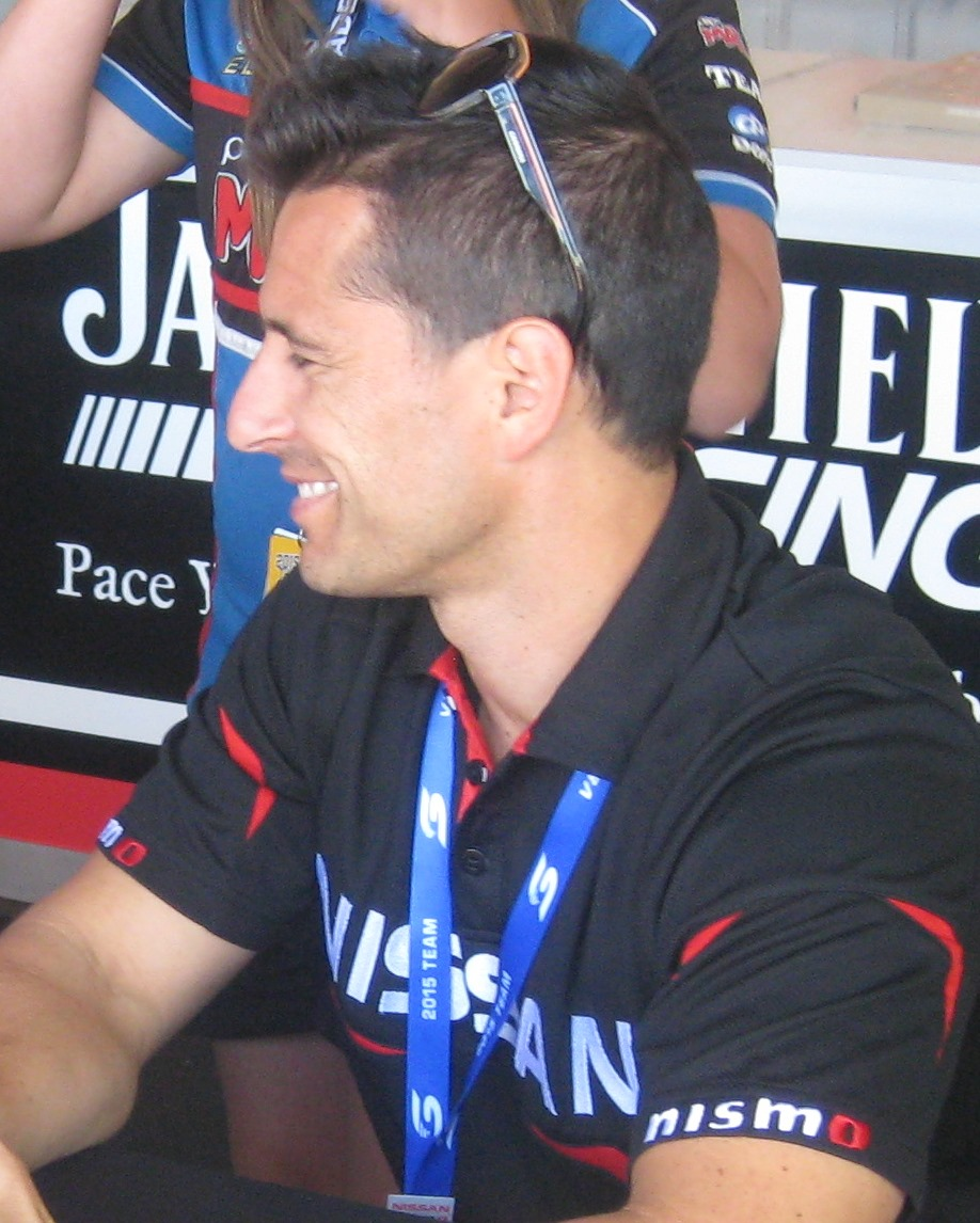 V8 Supercar driver Michael Caruso at the 2015 Clipsal 500 Adelaide